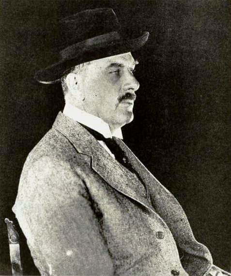 American director Maurice Campbell (1869 – 1942), on page 52 of the April 24, 1921 Film Daily.